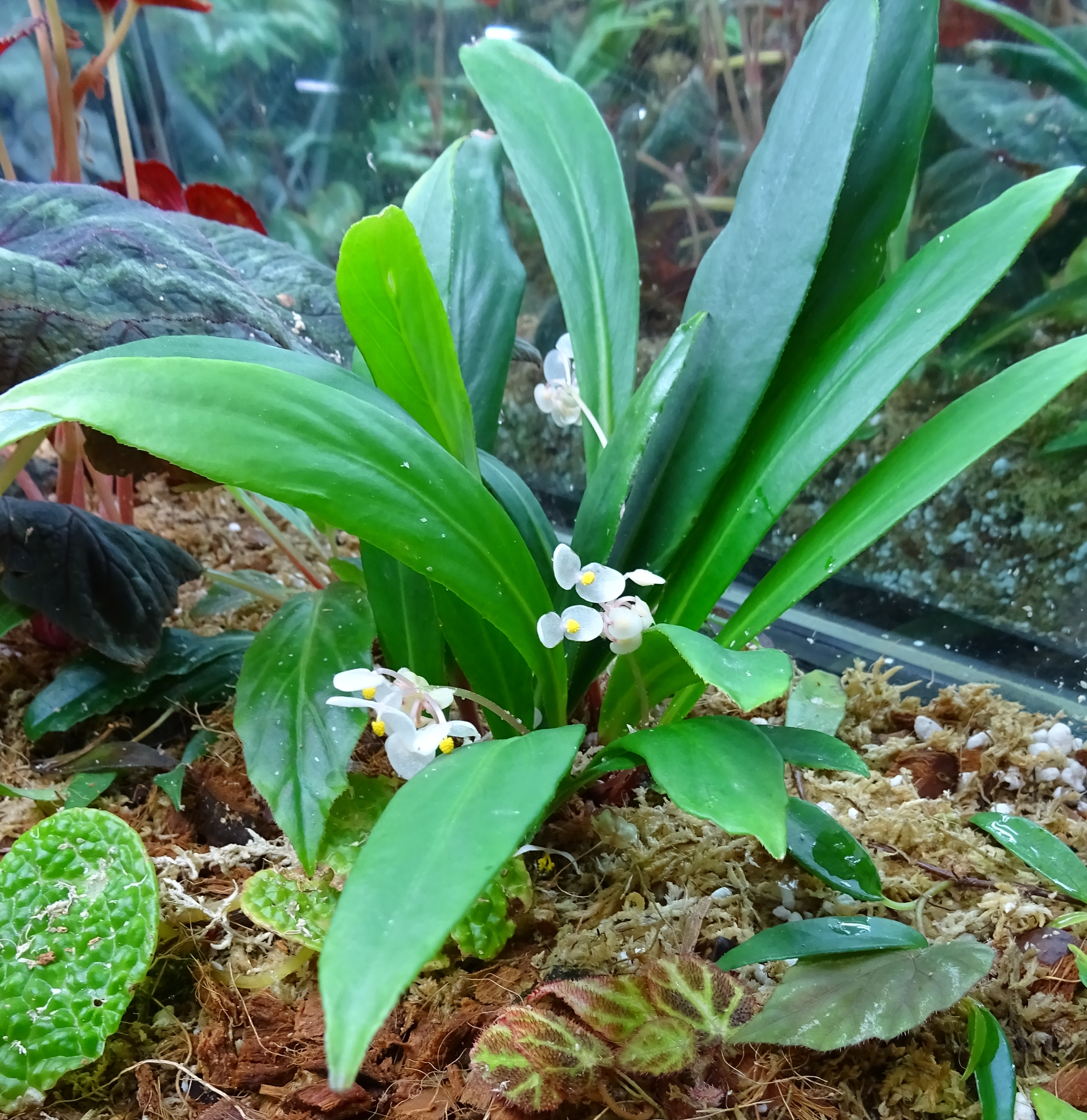 B. herbacea section Trachelocarpus